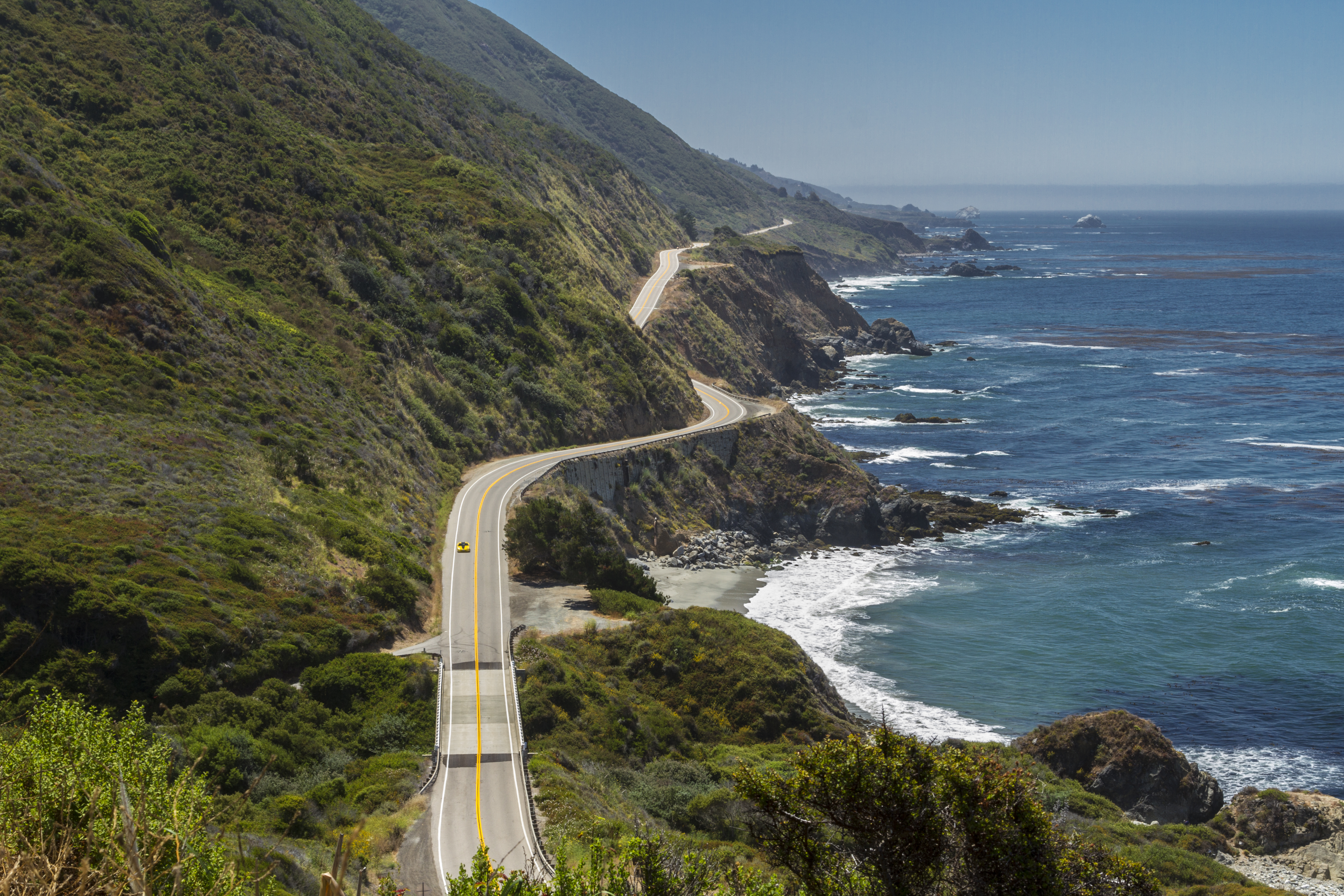 Highway 1 in Big Sur, California, clings to the coastal cliffs over much of its distance. This view looking south is about one mile north of Ragged Point, near the southern end of the Big Sur region.